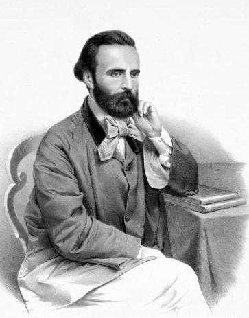 Italian conductor Angelo Mariani (1821-1873) by Augusto Bedetti (1817-1884).